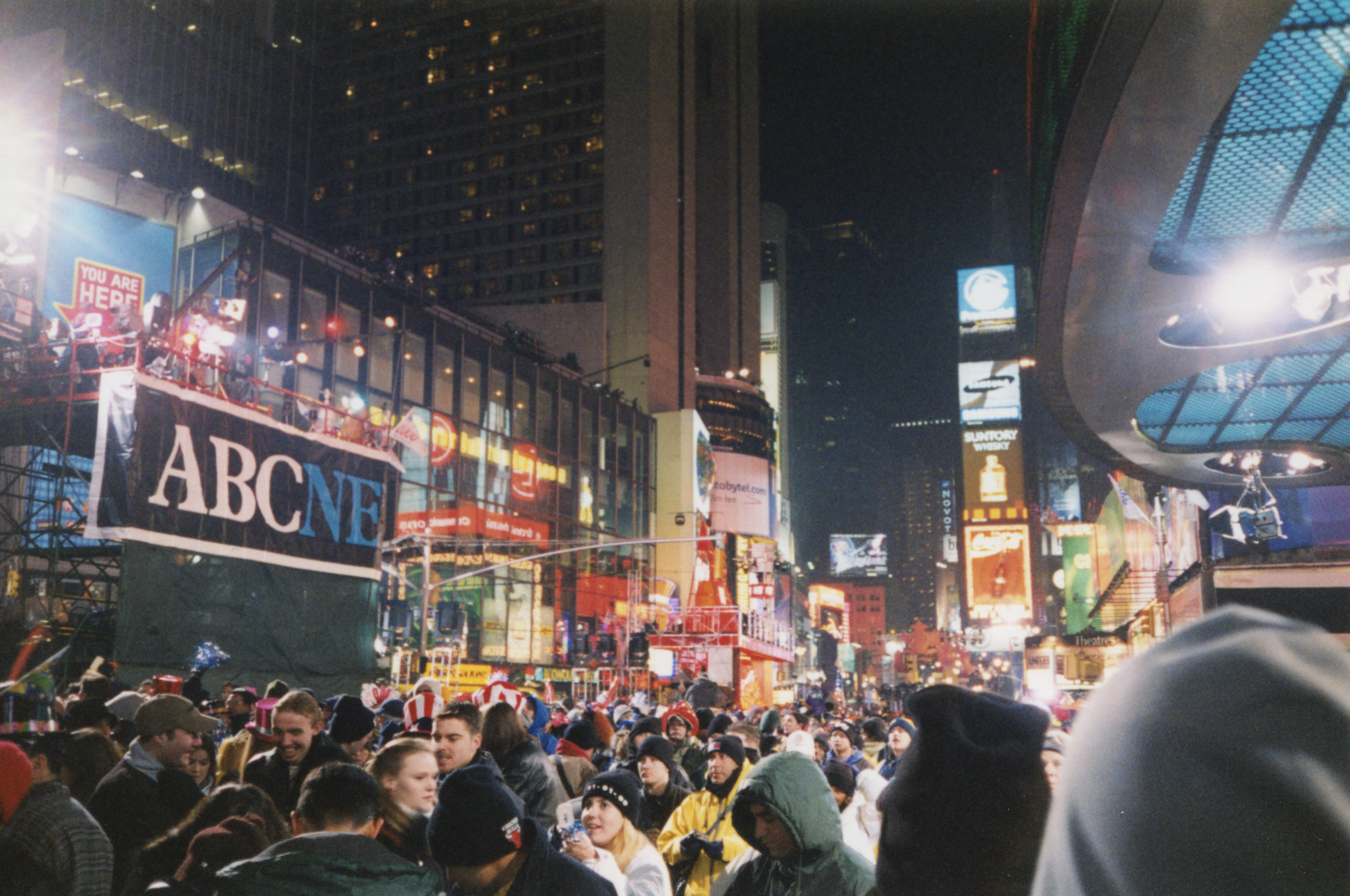 View of Times Square, New Year's Eve 1999. Originally captioned: "Looking at all the people behind us. Wut!?!? How did we get here? Read about how here".